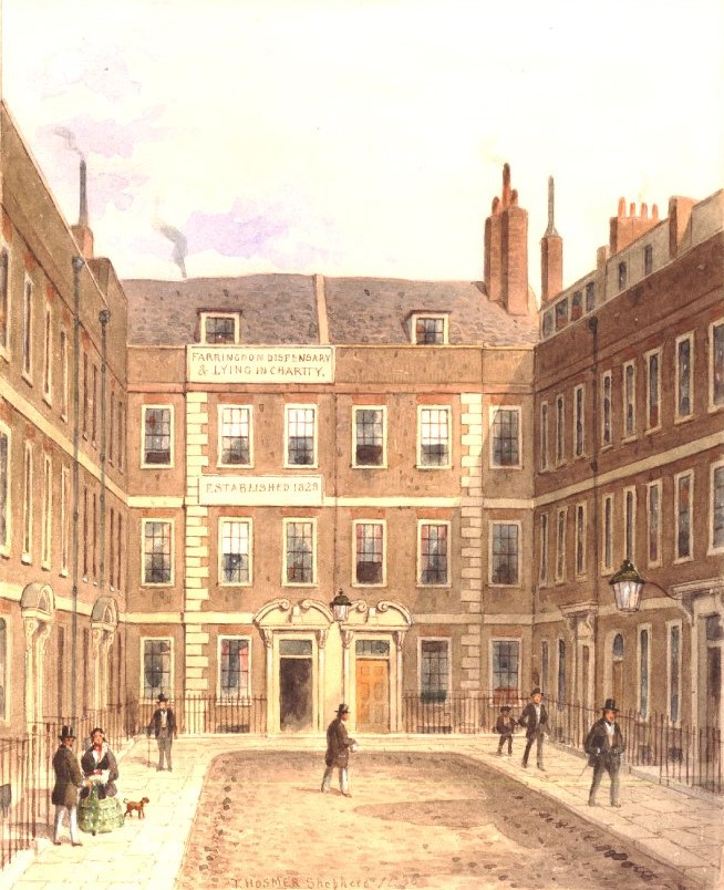 View of Bartlett's Buildings in Holborn; on a sign on front of building "Farringdon Dispensary & Lying in Charity", and below "Established 1828". 1858 Watercolour